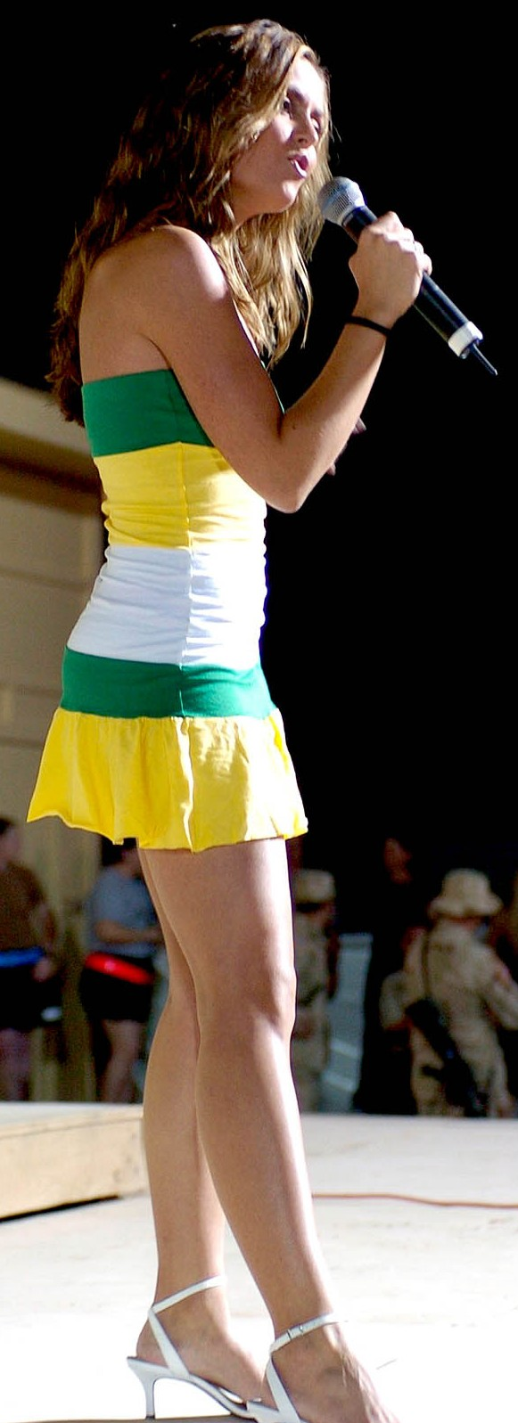 Angela Lanza shares a song with the Kandahar Airfield crowd June 2, 2004. Lanza sang for the service members at the base as part of Hooters’ Operation Let Freedom Wing tour. Lanza, runner-up on last season’s American Idol television show, is one of the Hooters Calendar Girls.